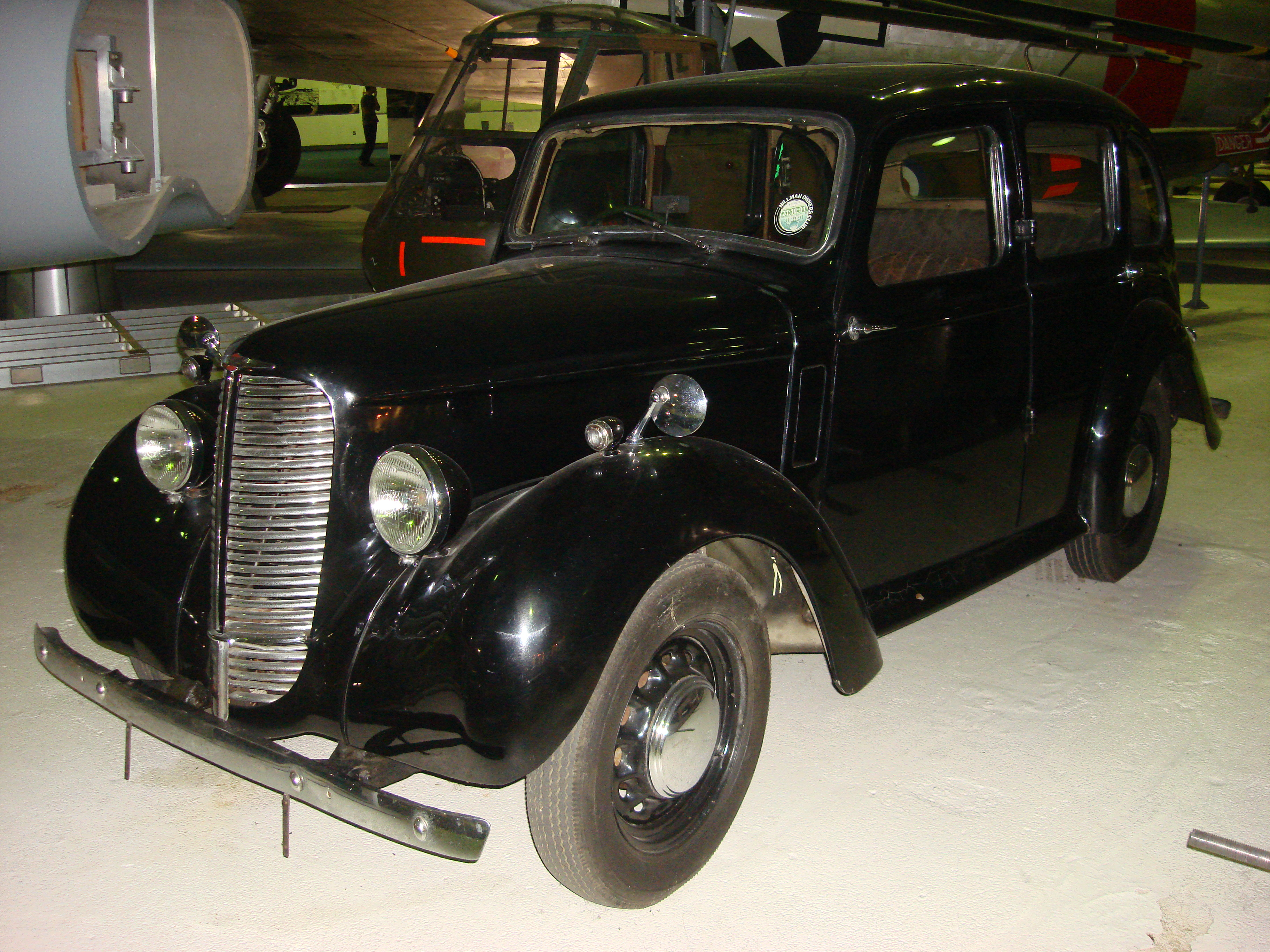 Hillman Minx RAF staff car at the RAF Museum, london